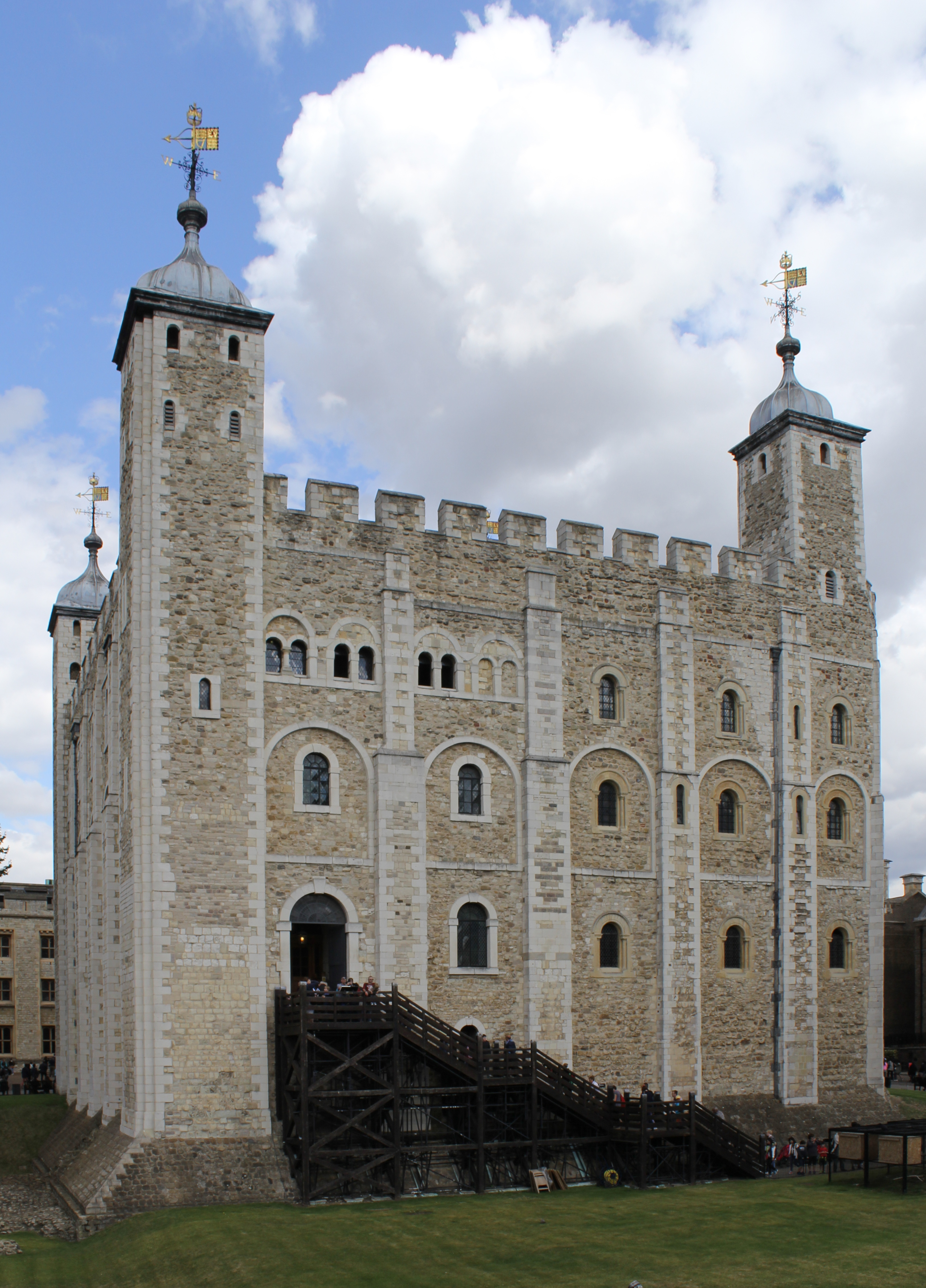 Tower of London Wikidata has entry Q17645576 with data related to this monument.